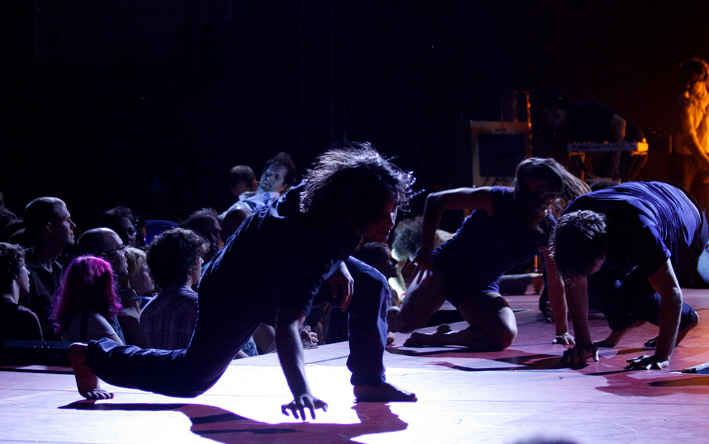 Wim Vandekeybus/Ultima Vez and Mauro Pawlowski presenting What's the Prediction? at the opening of the ImPulsTanz Vienna International Dance Festival (Museumsquartier, Vienna).